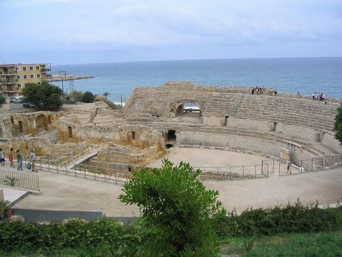 Tarragona